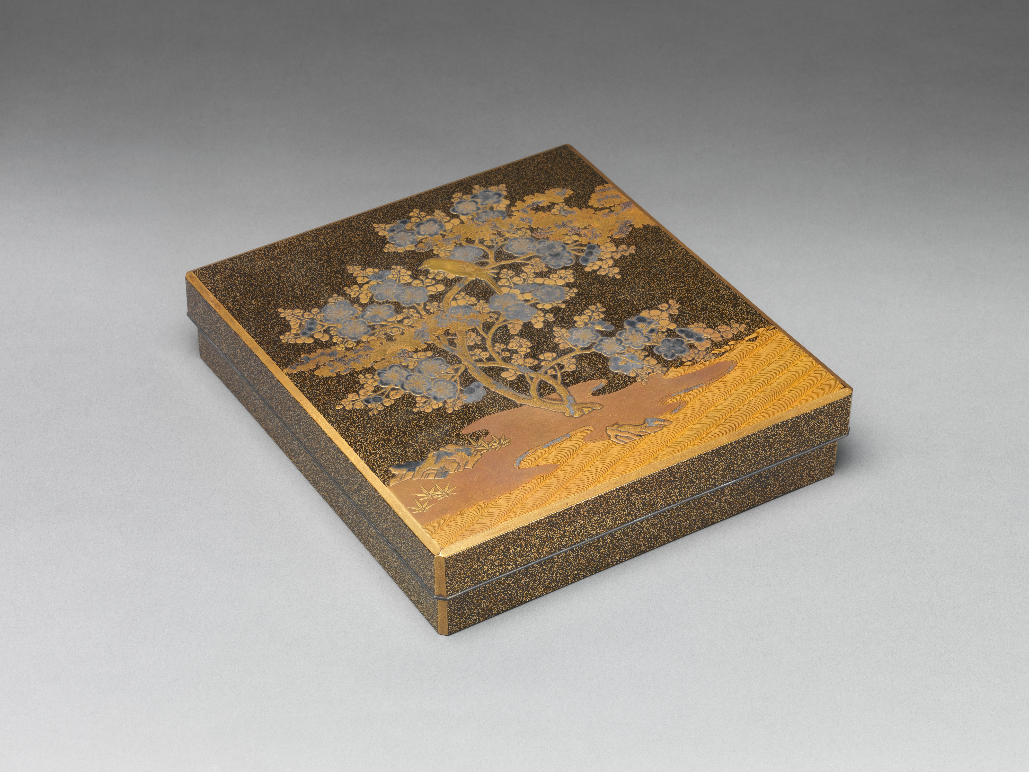 Japan; Writing box; Lacquer